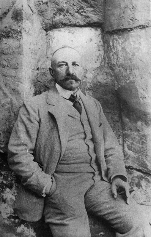 Vladimir Georgievich Bok, Russian Copotologist, in Egypt, 1888/1889